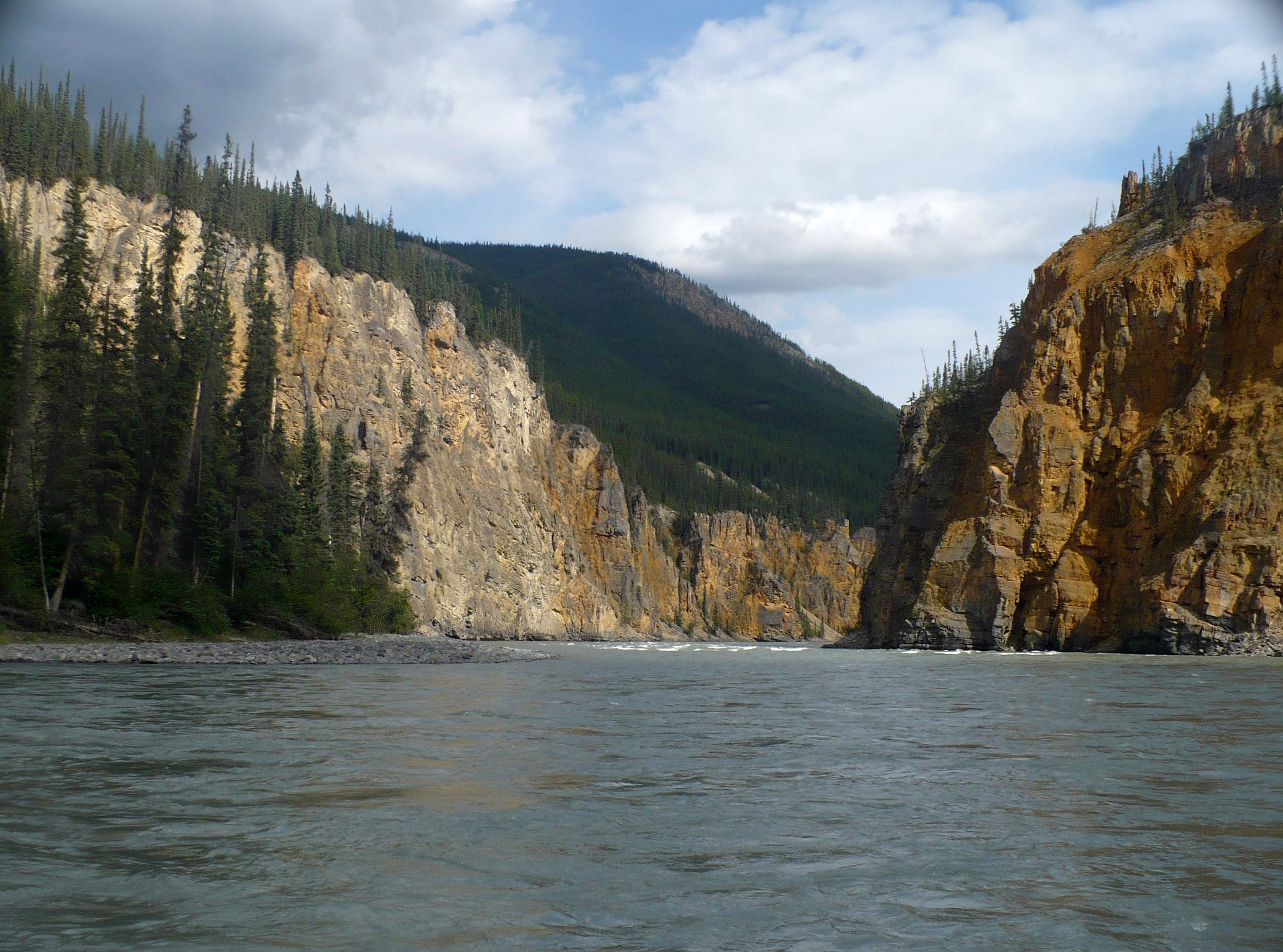 Fourth Canyon, Nahanni River, Northwest Territories, Canada